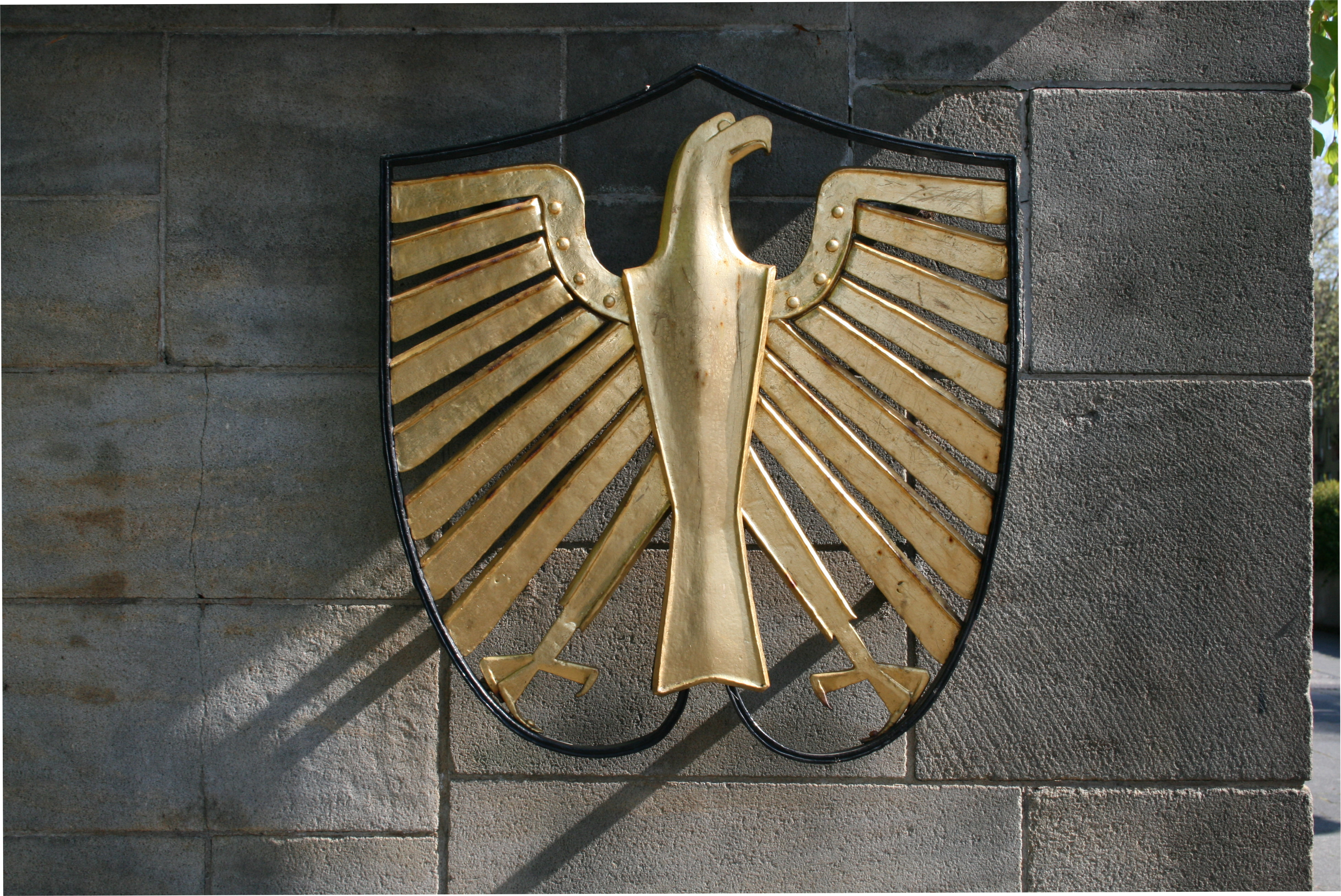 Federal eagle on a driveway wall of the Villa Hammerschmidt in Bonn. Originally it was part of a two-winged iron entrance door.